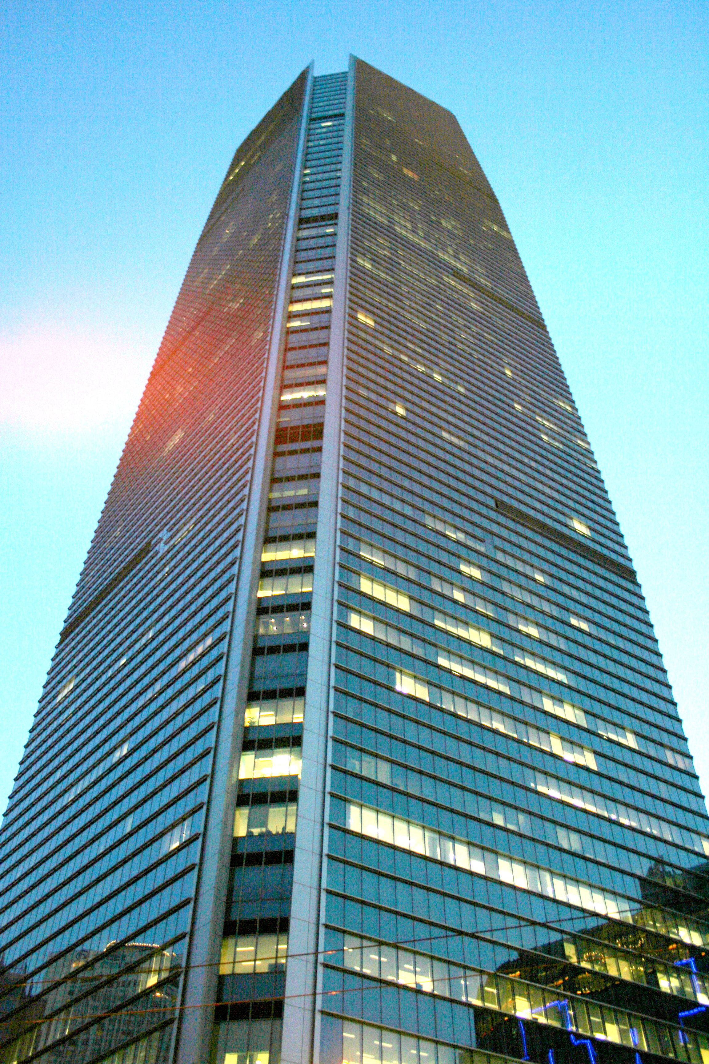 This is a picture of Shanghai Wheelock Square. It was late when I visited the site, and the light of a street lamp is visible in this picture, so it should be replaced as soon as possible.